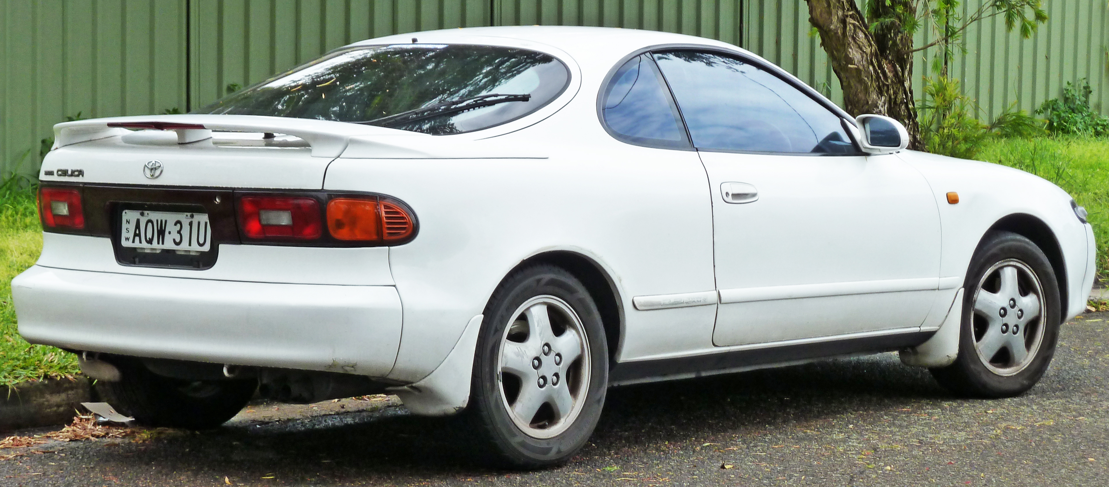 1993 Toyota Celica (ST184R) SX liftback. Photographed in Sans Souci, New South Wales, Australia.